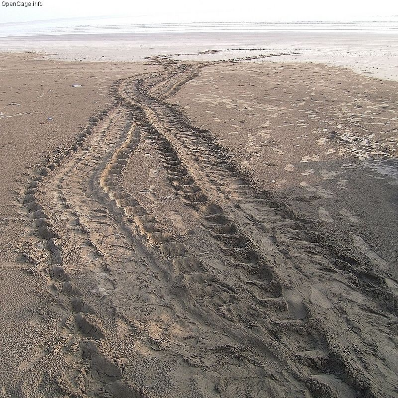 アカウミガメの足跡 foot print of Loggerhead Sea Turtle.